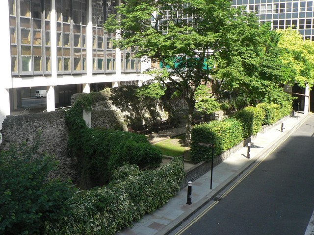 City parish churches: St. Alphage London Wall (remains) Looking down from a raised walkway on St. Alphage Garden, the site of St. Alphage church which was destroyed in the Great Fire and never rebuilt. Some remains survive, both in the Garden and a little southwest.